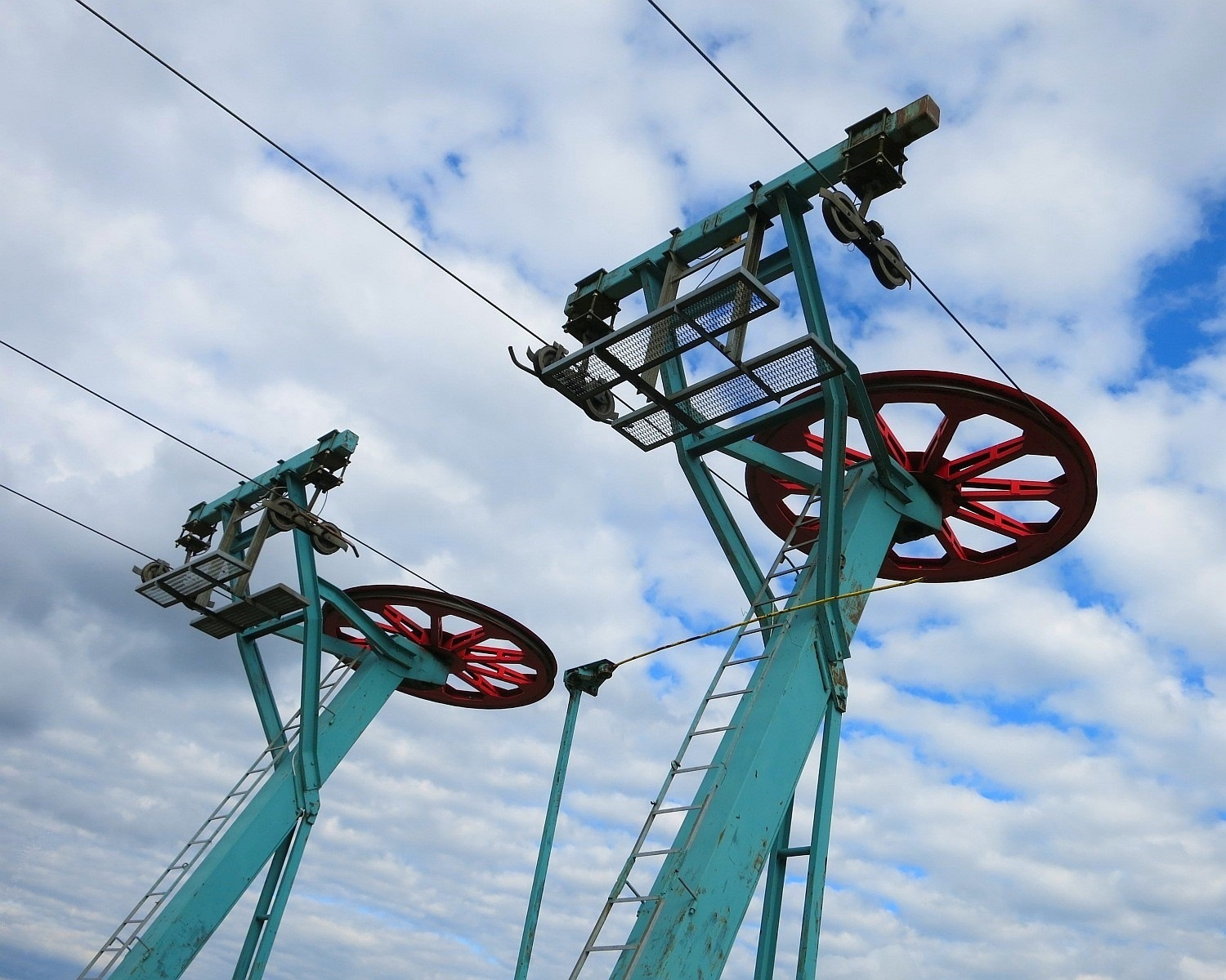 The upper end of ski lift in Sveitsi ski resort (Hyvinkää, Finland)